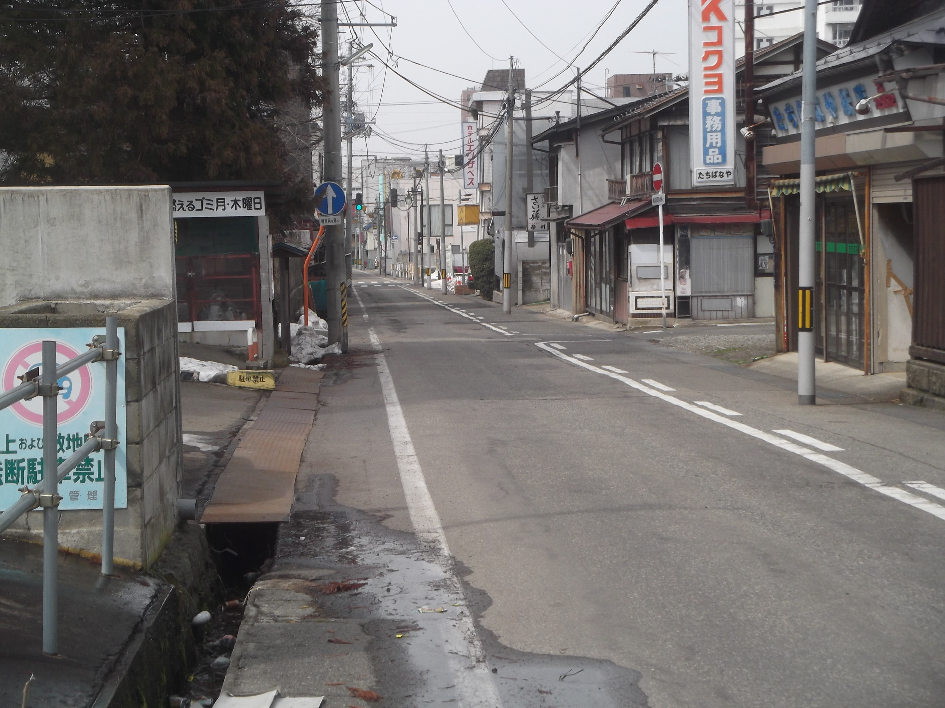 Landscape of Tsukinokimachi, Aizuwakamatsu, Fukushima.